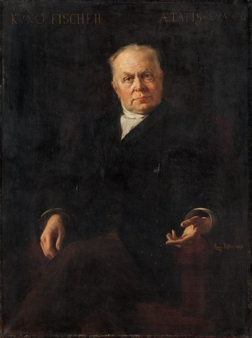 Kuno Fischer, German philosopher, at the age of 70, 1898.